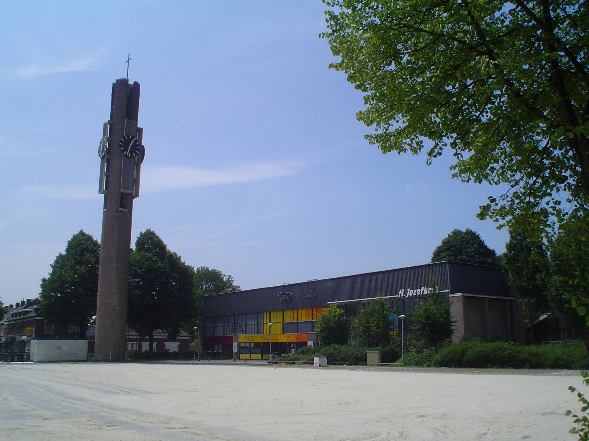 Saint Josephchurch in Veldhoven. Built in 1962.